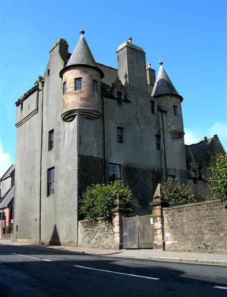 Maybole Castle Dating from the early 17th century, Maybole Castle was built as the town house of the 6th Earl of Cassillis and still belongs to the Kennedy family. The present castle is all that remains of a much larger building and grounds. Space was needed to improve the main road through the town in the 19th century. The castle is open to the public on specific dates during the summer months, with tours led by members of the Maybole Historical Society.